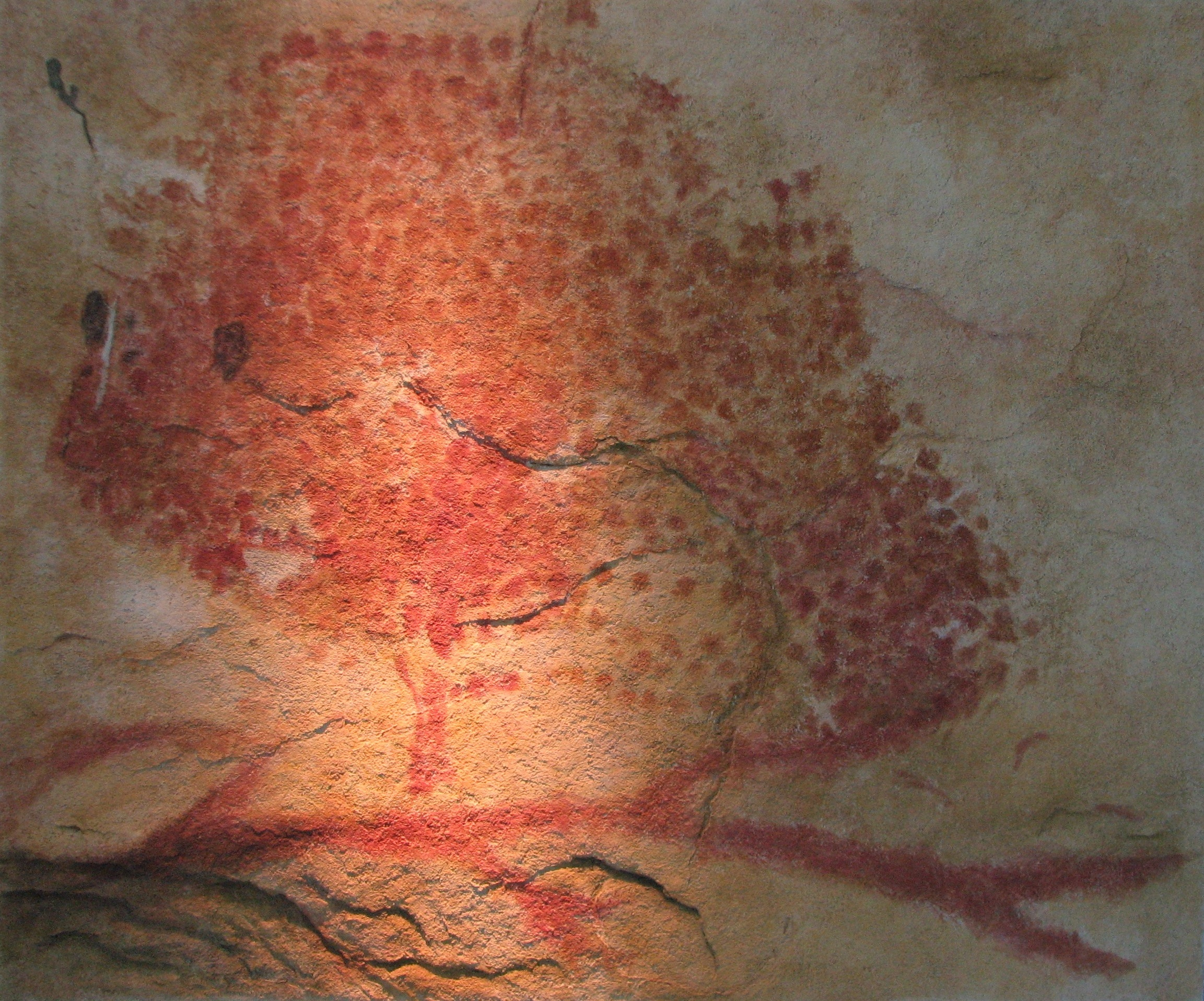 A painting of a bison from the Marsoulas cave, France. Magdalenian. Replica in the Brno museum Anthropos.